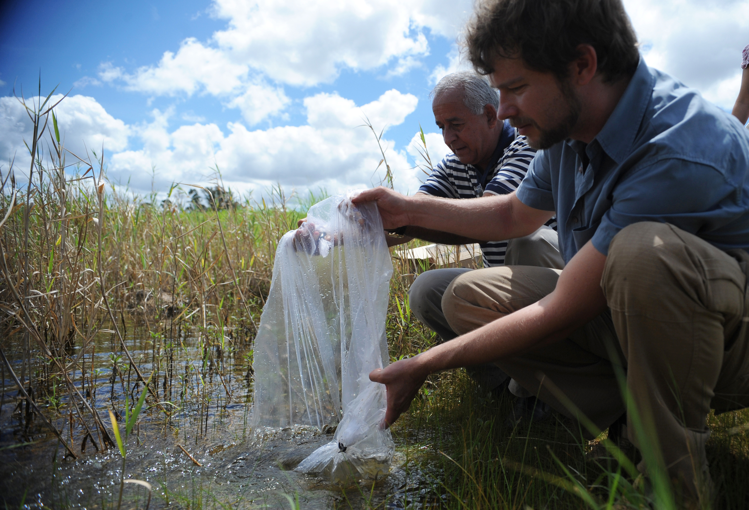 Public health officers release Poecilia reticulata (guppy) fry into an artificial lake in Brasília, Brazil, as part of dengue vector control activities.